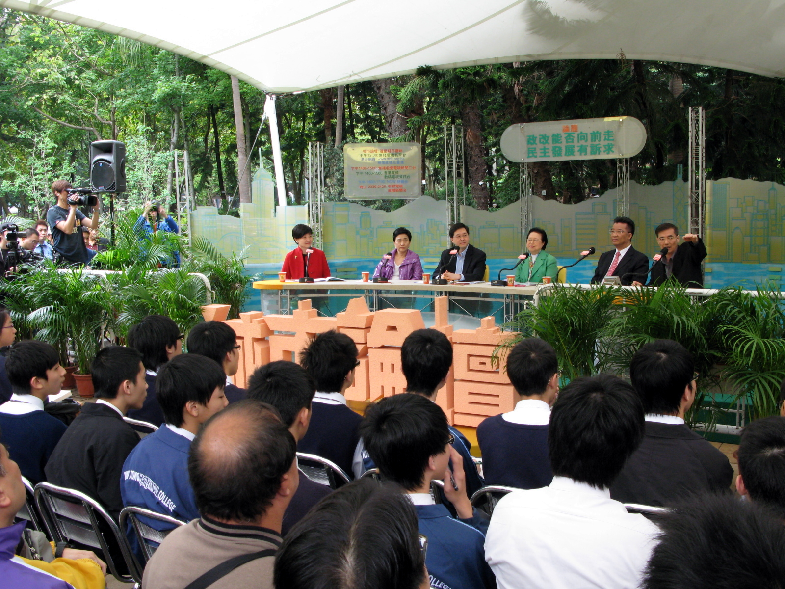 RTHK City Forum Live 城市論壇於2010年4月18日的直播